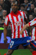 Luis Amaranto Perea playing for Atletico de Madrid. Real Madrid v Atletico de Madrid, March 28, 2010.